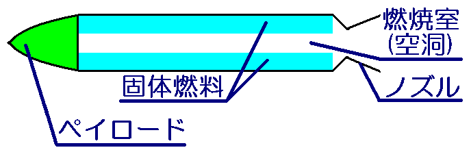 The sketch of solid rocket written in Japanese.固体燃料ロケットの簡略図。